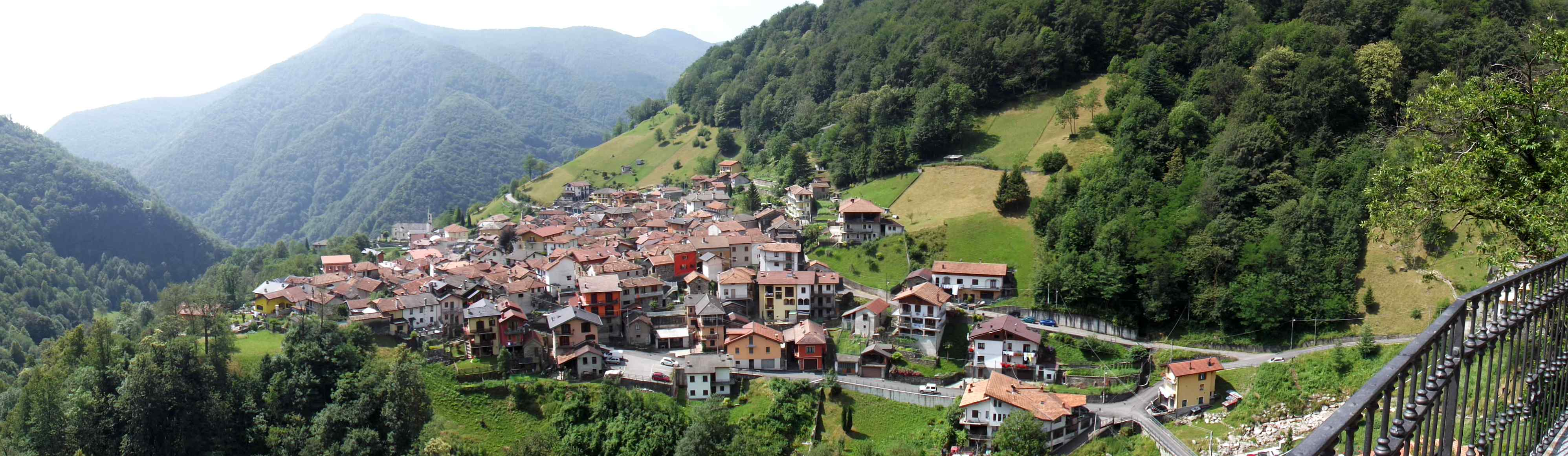 Luzzogno (Valstrona, VB, Italy): panorama from Madonna della Colletta